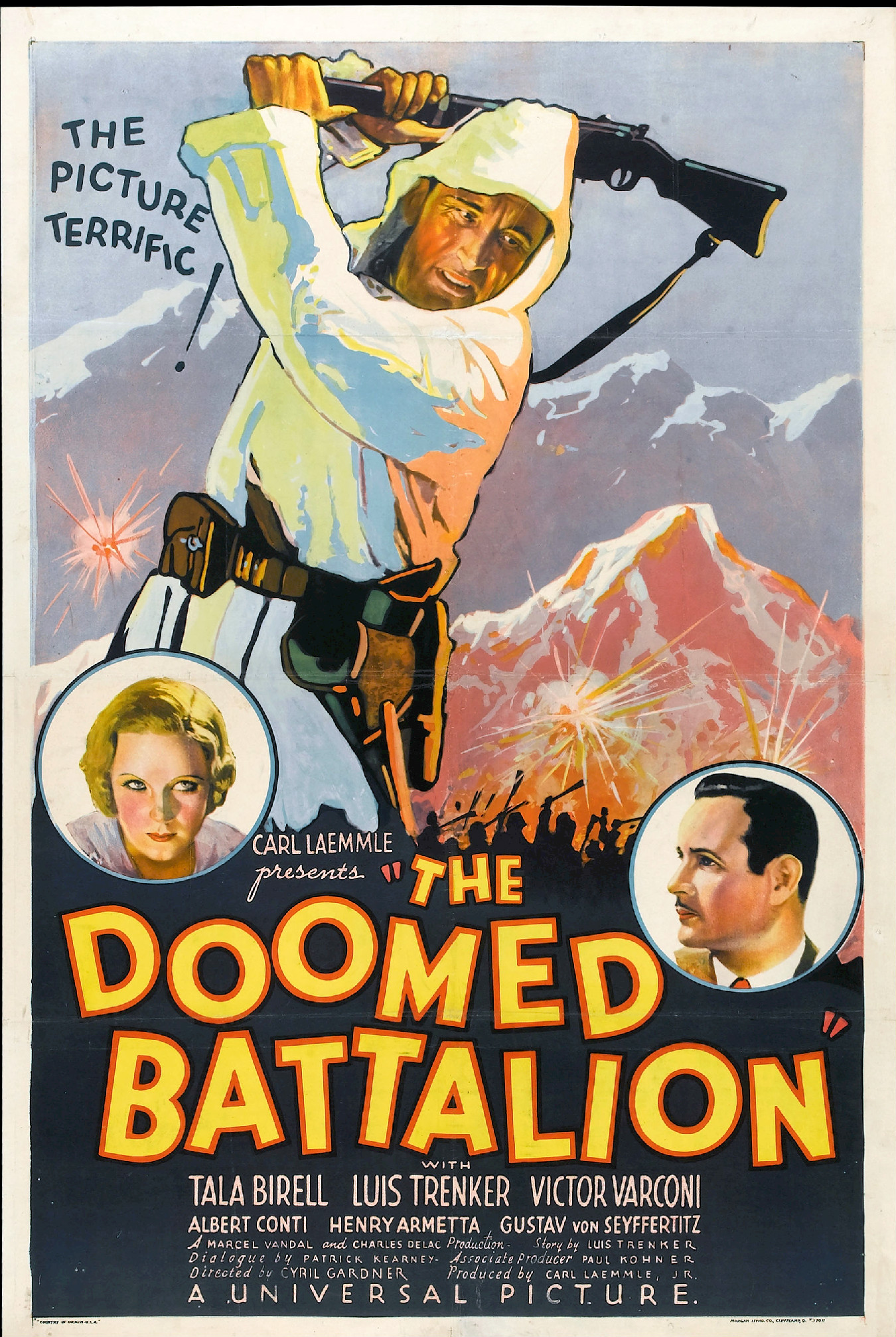 Poster for the 1932 film Doomed Battalion. There are no copyright marks. At bottom left is Country of origin USA. At bottom right is Morgan Litho Co. Cleveland, O.--they printed the poster--and #37011, which appears to be a print job number for the poster.